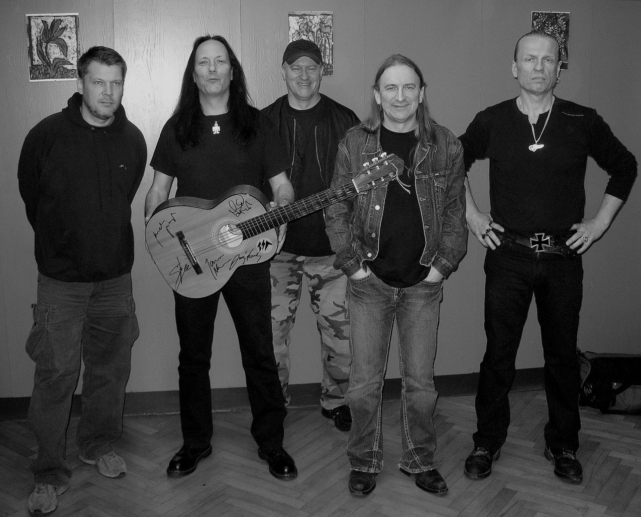 TSA in Bydgoszcz (2008)